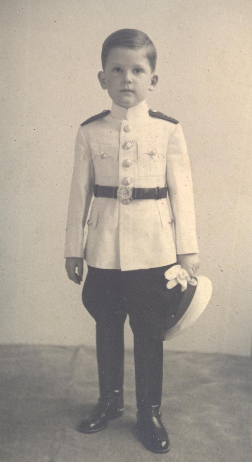 Simeon-The Prince of Turnovo